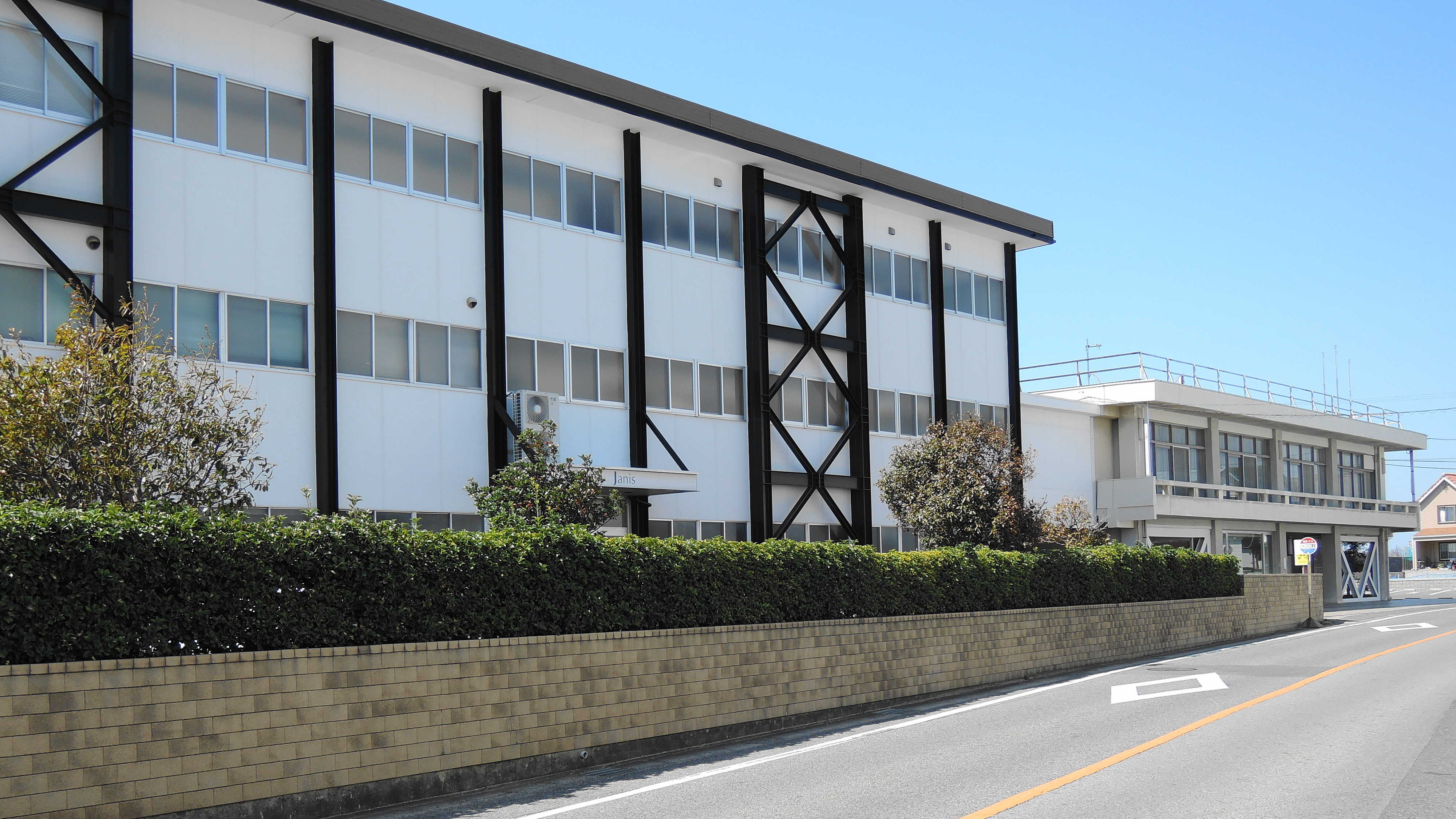 Headquarters of Janis Ltd.,Aichi prefecture,Japan